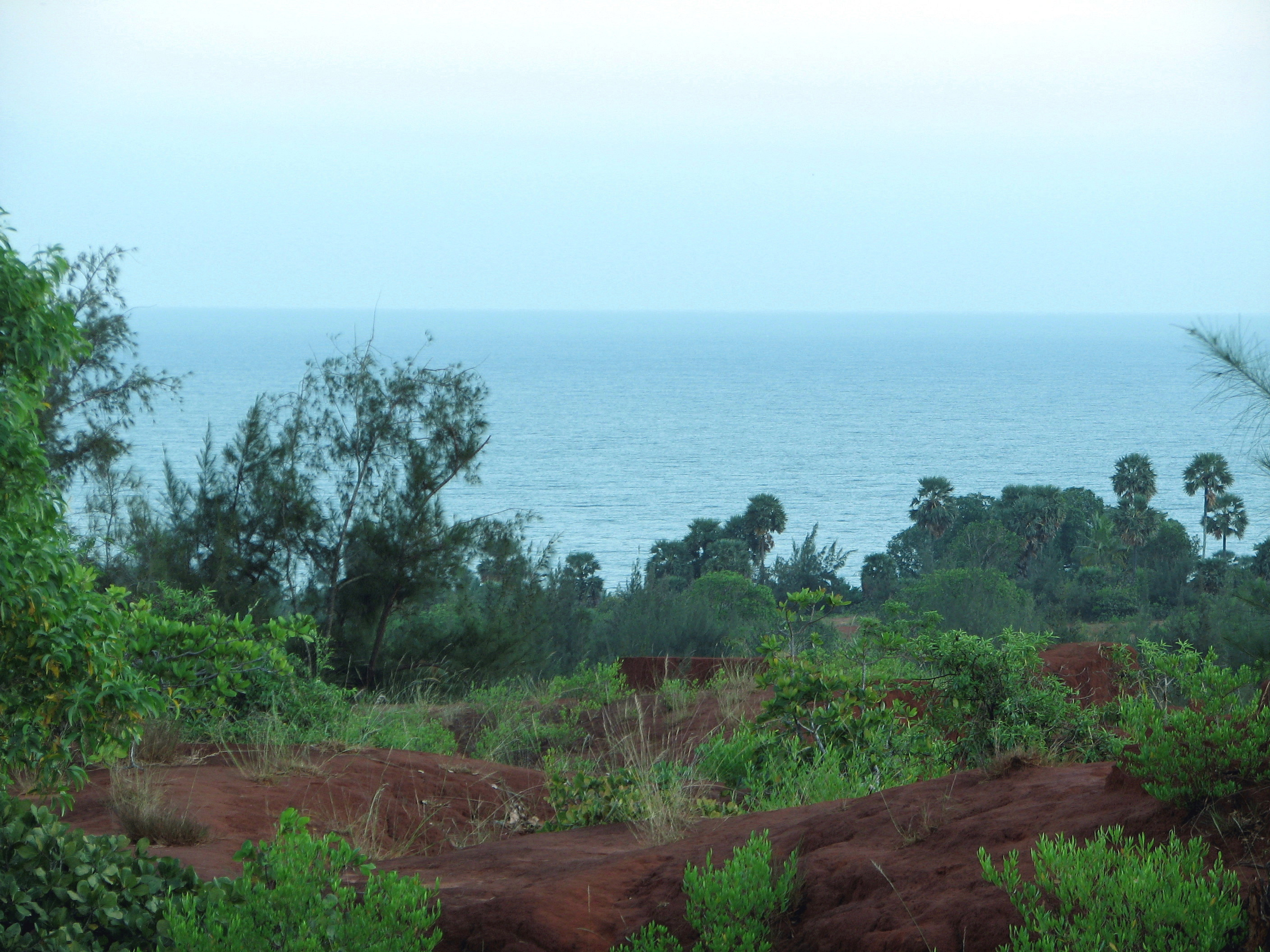 Self-made photograph ; Author's Name : Infocaster